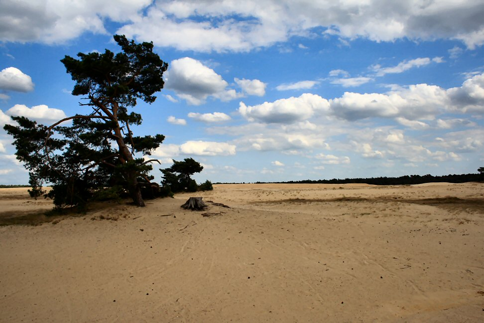 Part of the open landscape in Dutch national park "De Hoge Veluwe"